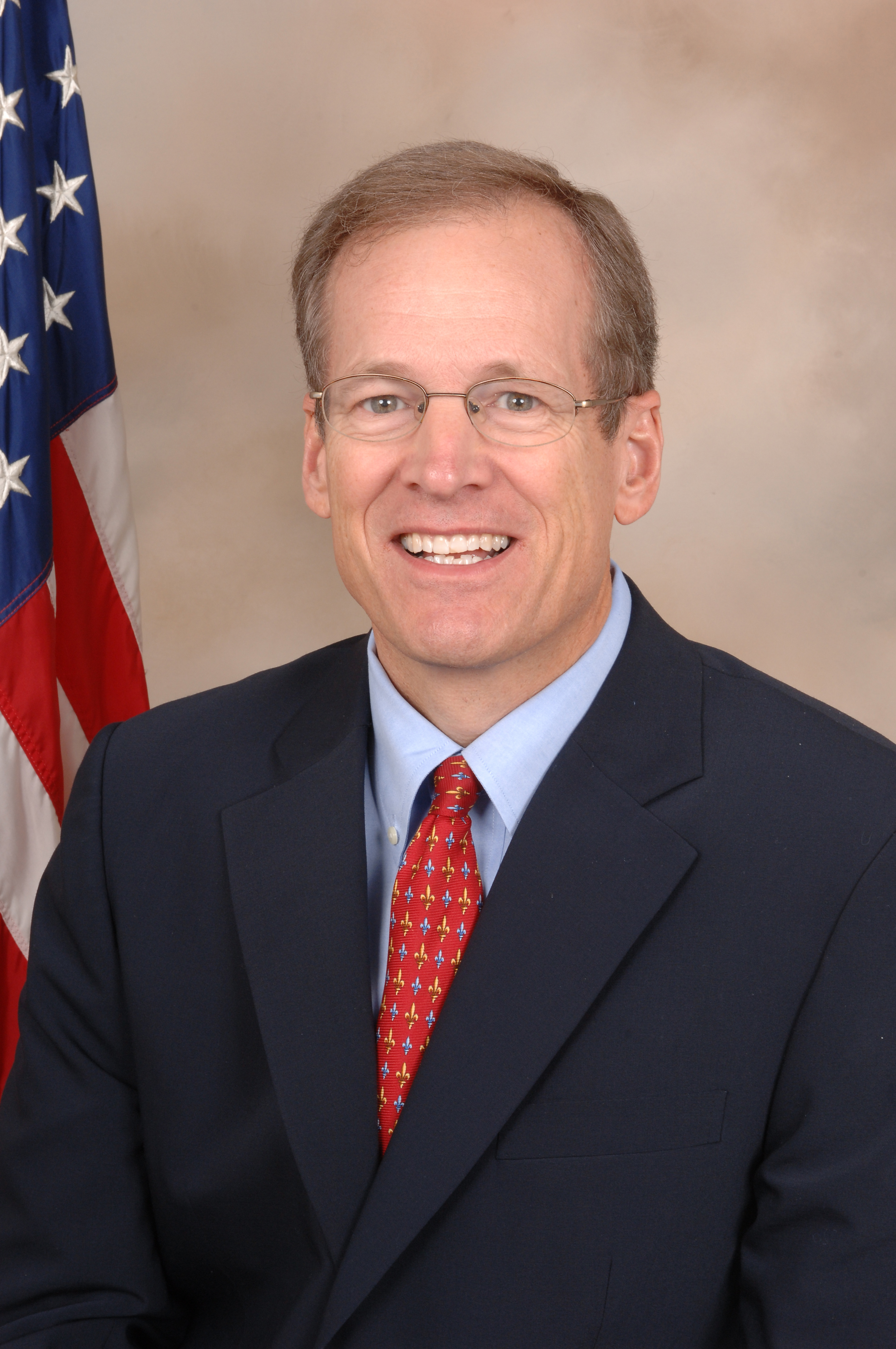 Jack Kingston, member of the United States House of Representatives.